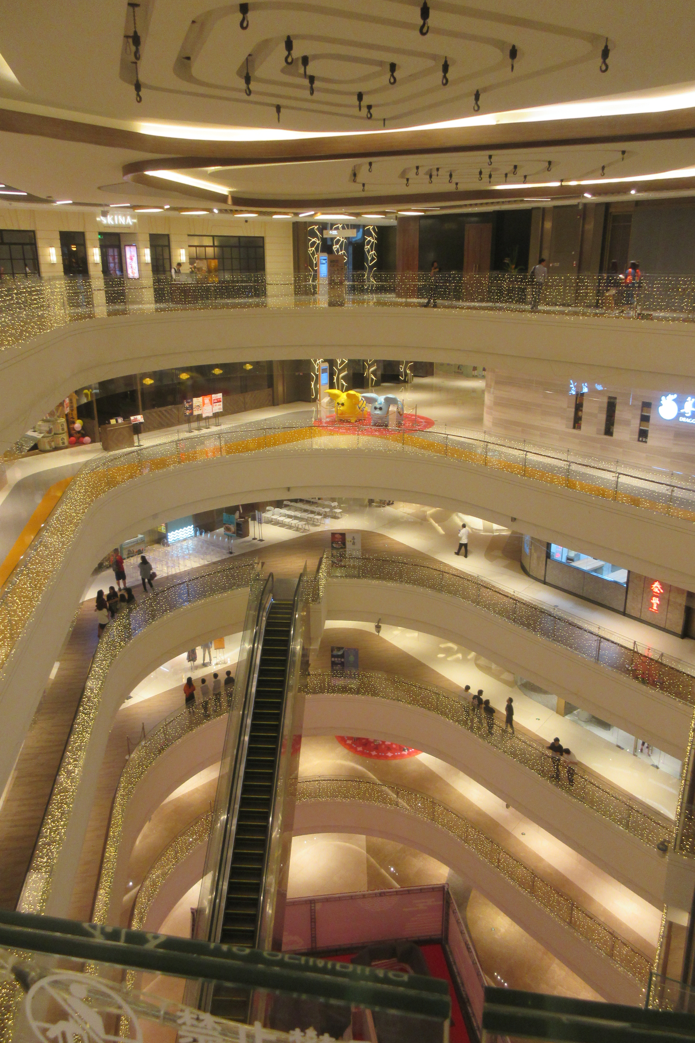 SZ 深圳市 Shenzhen 福田區 Futian Ping An Finance Centre 平安金融中心商場 PAFC Mall in April 2019